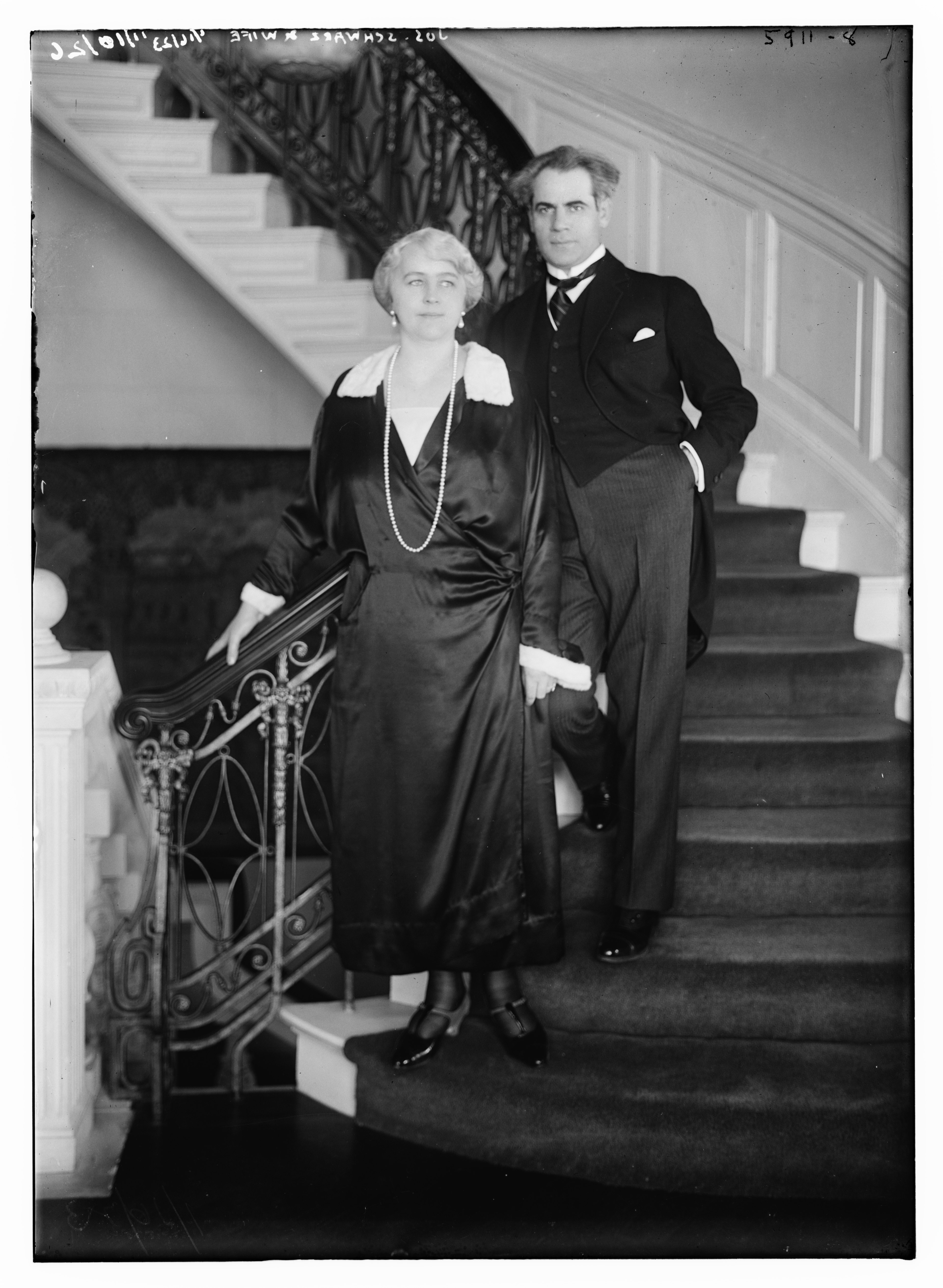 Title: Jos. Schwatz (Schwarz!, bariton) and wife Abstract/medium: 1 negative : glass ; 5 x 7 in. or smaller.